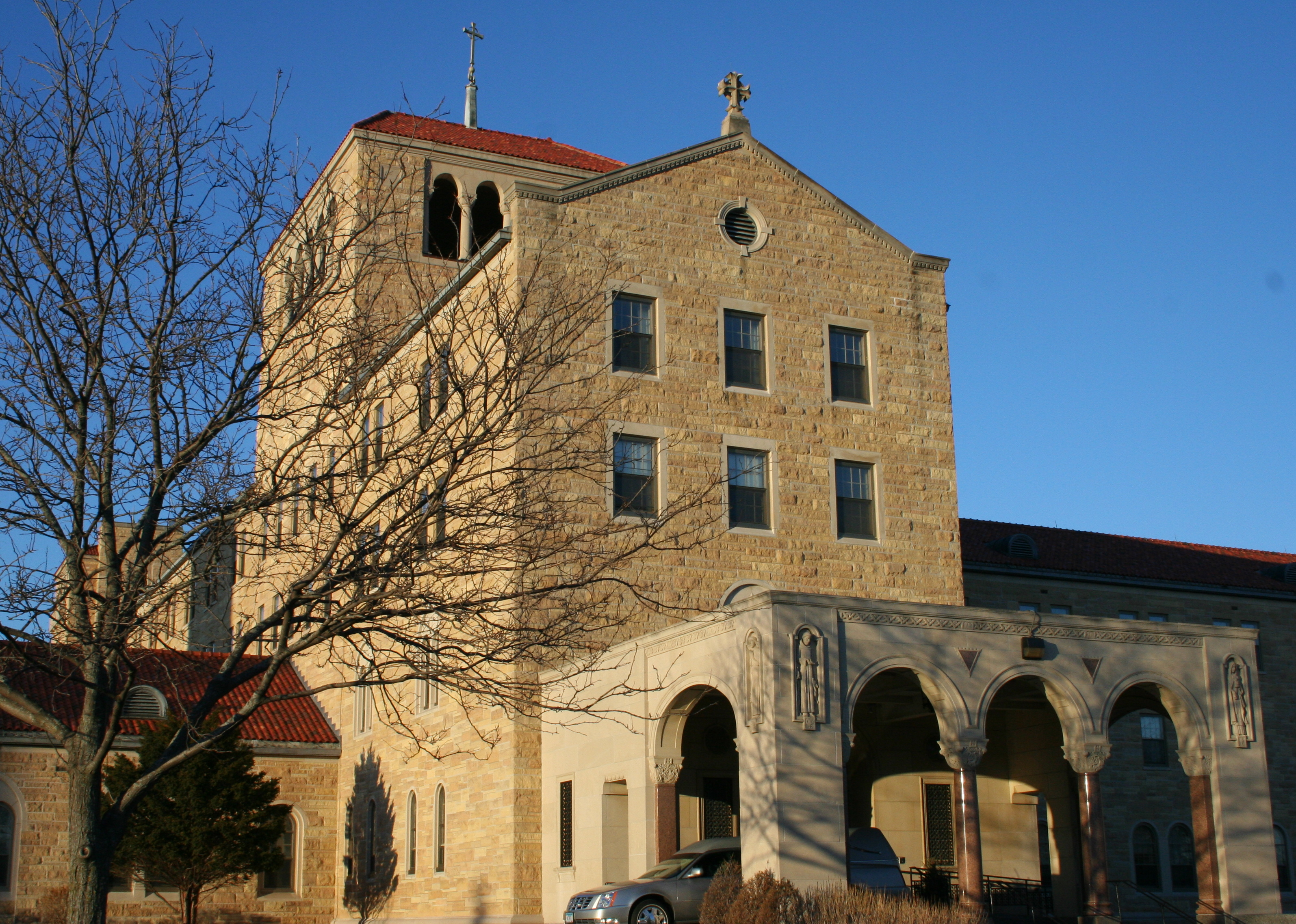 Main entrance to Assisi Heights in Rochester, Minnesota